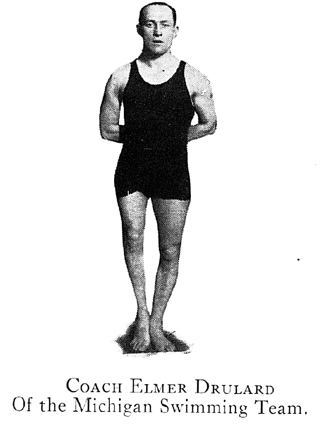 Photograph of Coach Elmer Drulard, founder of the University of Michigan varsity swim team in 1920